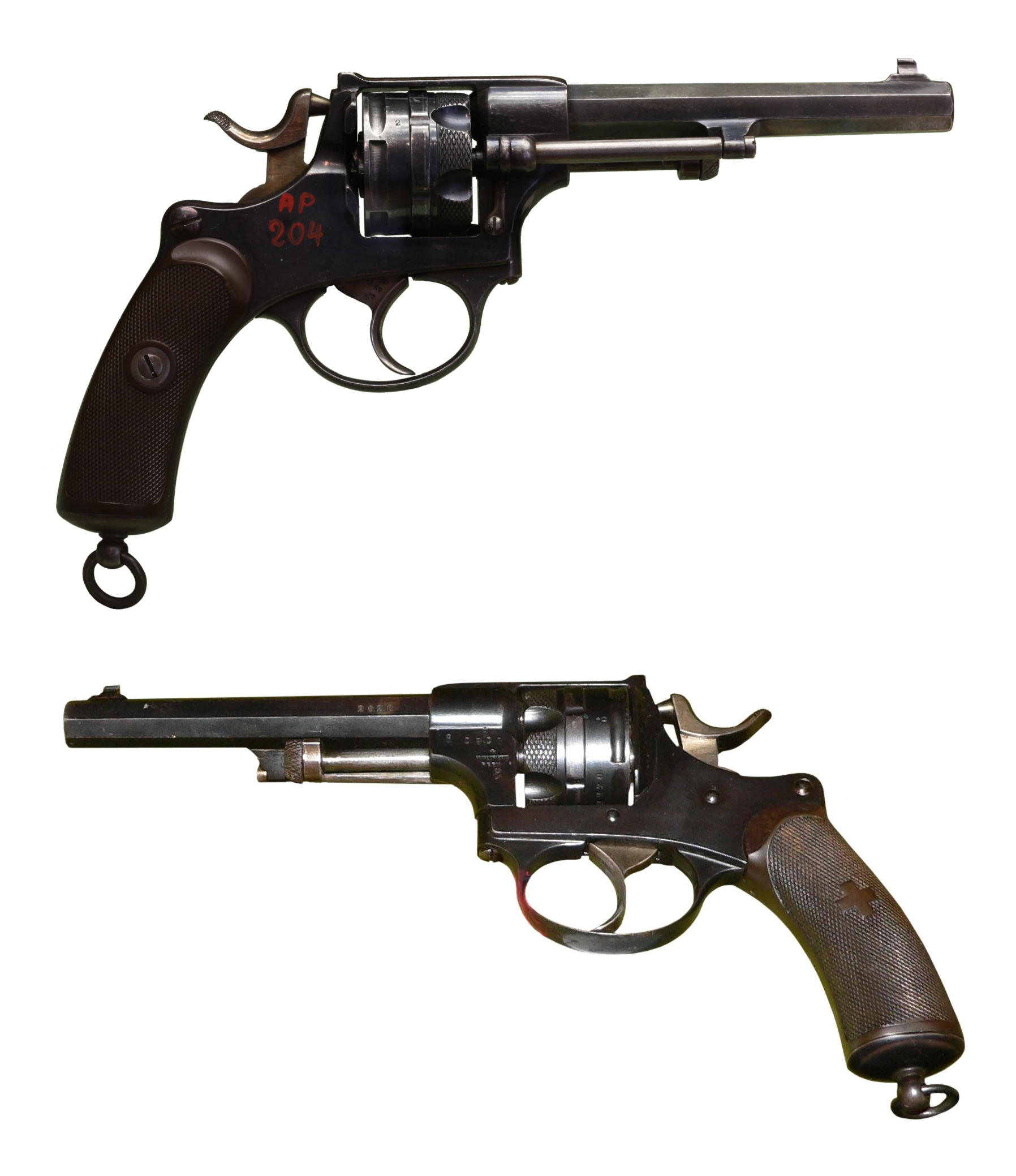 1878 Swiss revolver.